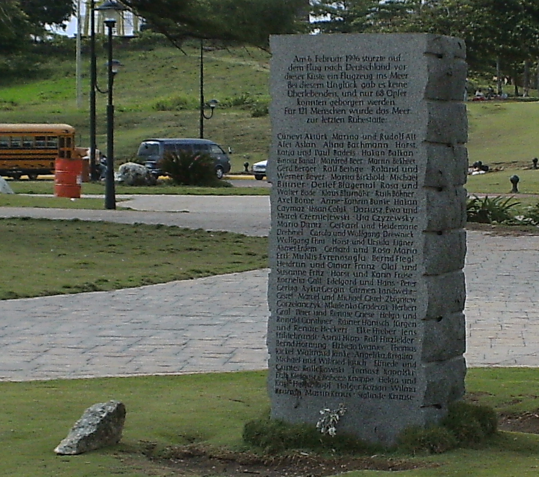 Air crash. Image taken near Puerto Plata, Dominican Republic.